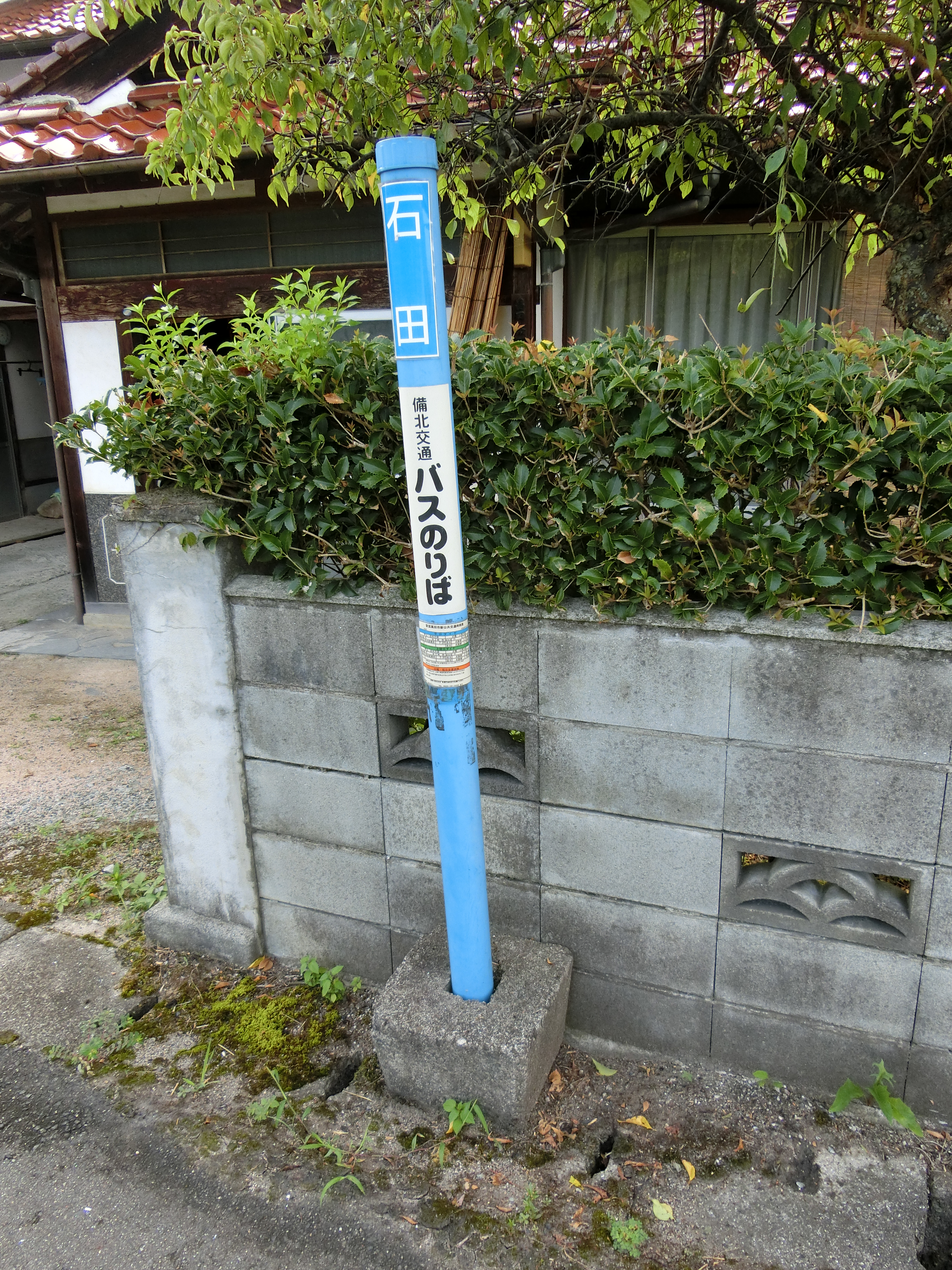 Ishida Bus stop of Otasuke-bus run by Takamiya Central Transport located in Aki-takata